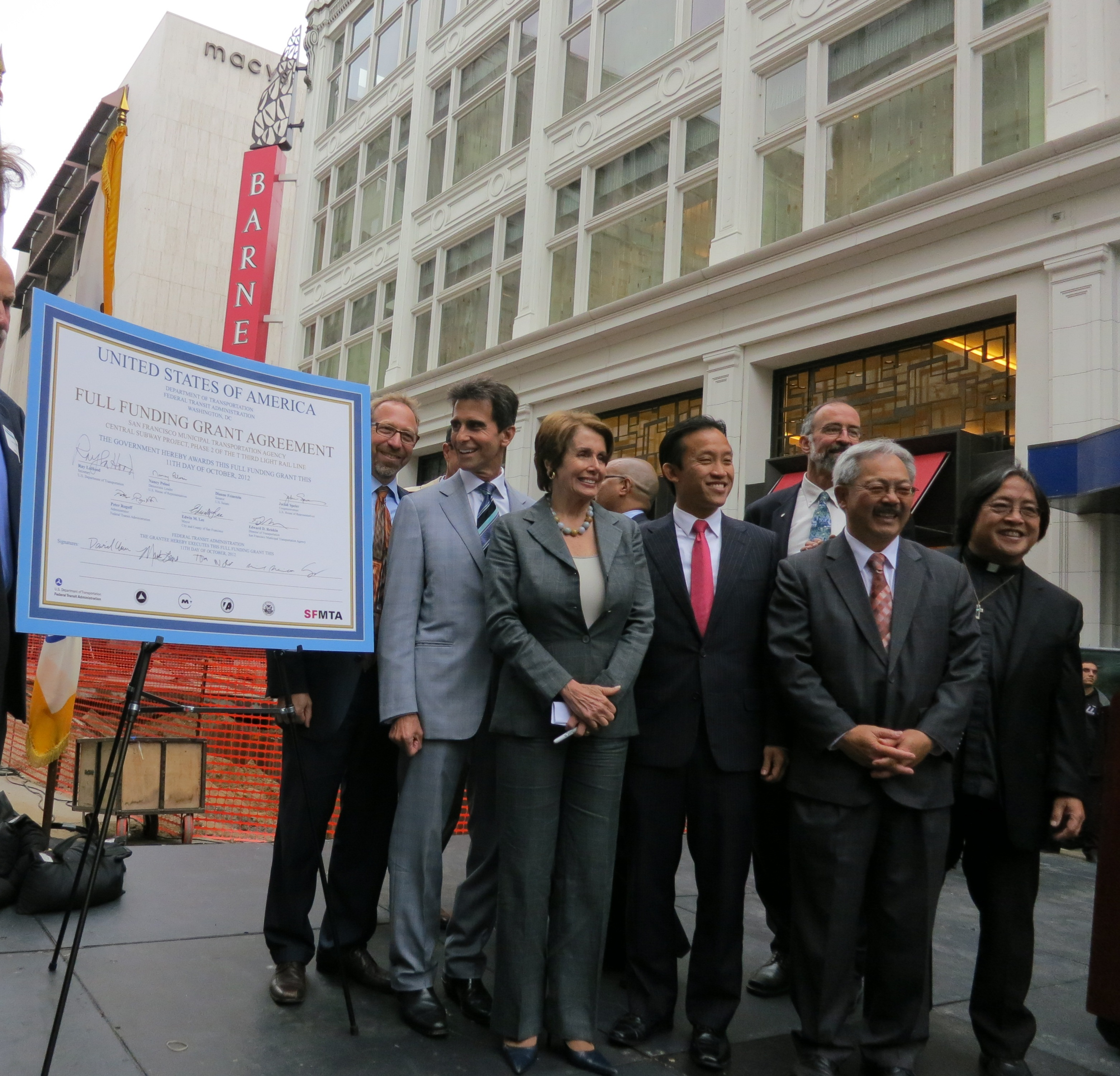 Congresswoman Pelosi signs the Full Funding Grant Agreement with Senator Mark Leno, Supervisor David Chiu, and Mayor Ed Lee to secure $1 billion in federal funding for the next phase of the Third Street-Central Subway line.